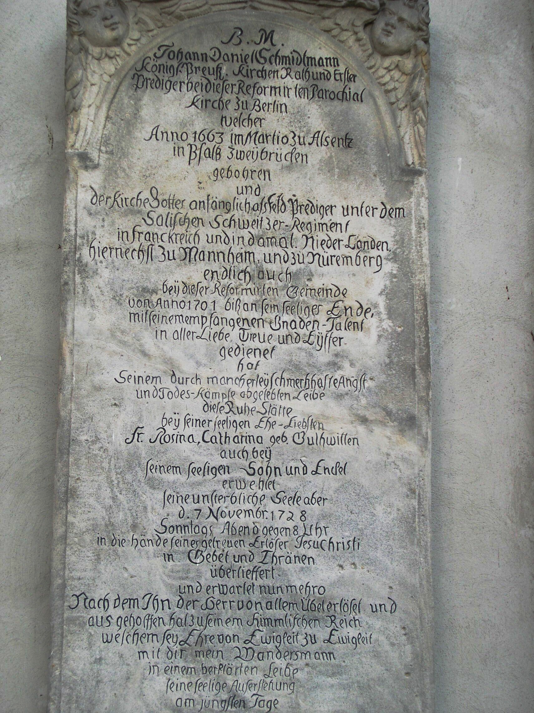 Cemetery at the Parochialkirche in Berlin-Mitte